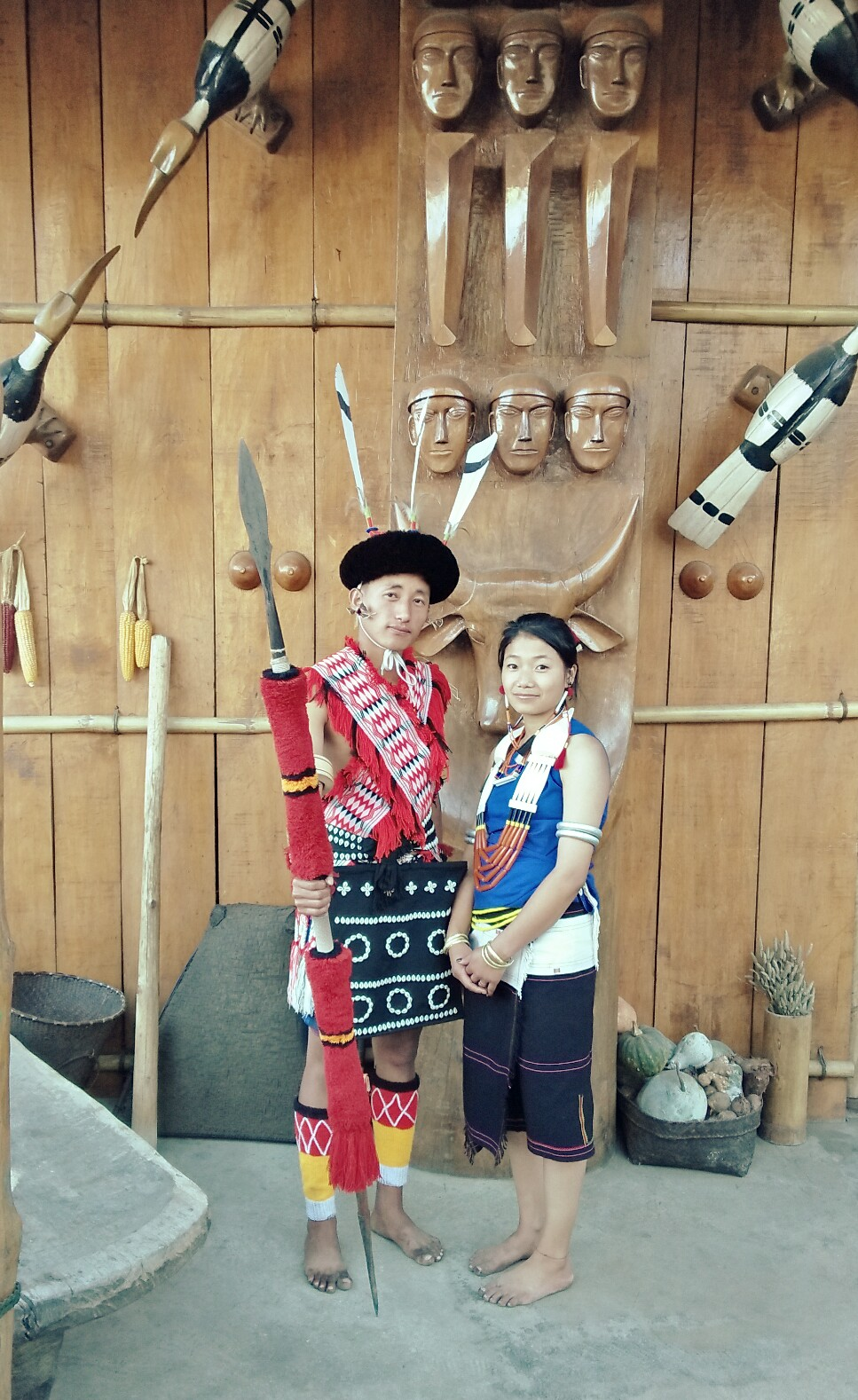 The festival takes place once in a year during the first week of December. Here around more than 50 different tribesmen gather and show their distinctive culture. A couple posing for a photograph during the festival in their traditional attire. This photo has been taken in the country: India